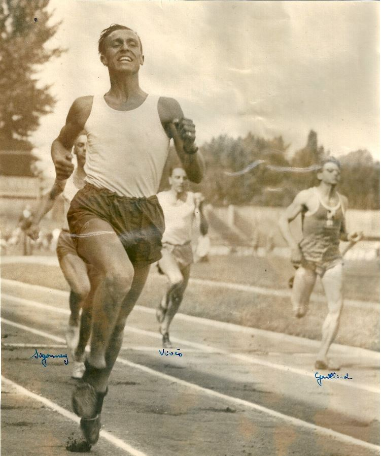 je ne sais pas où c'était